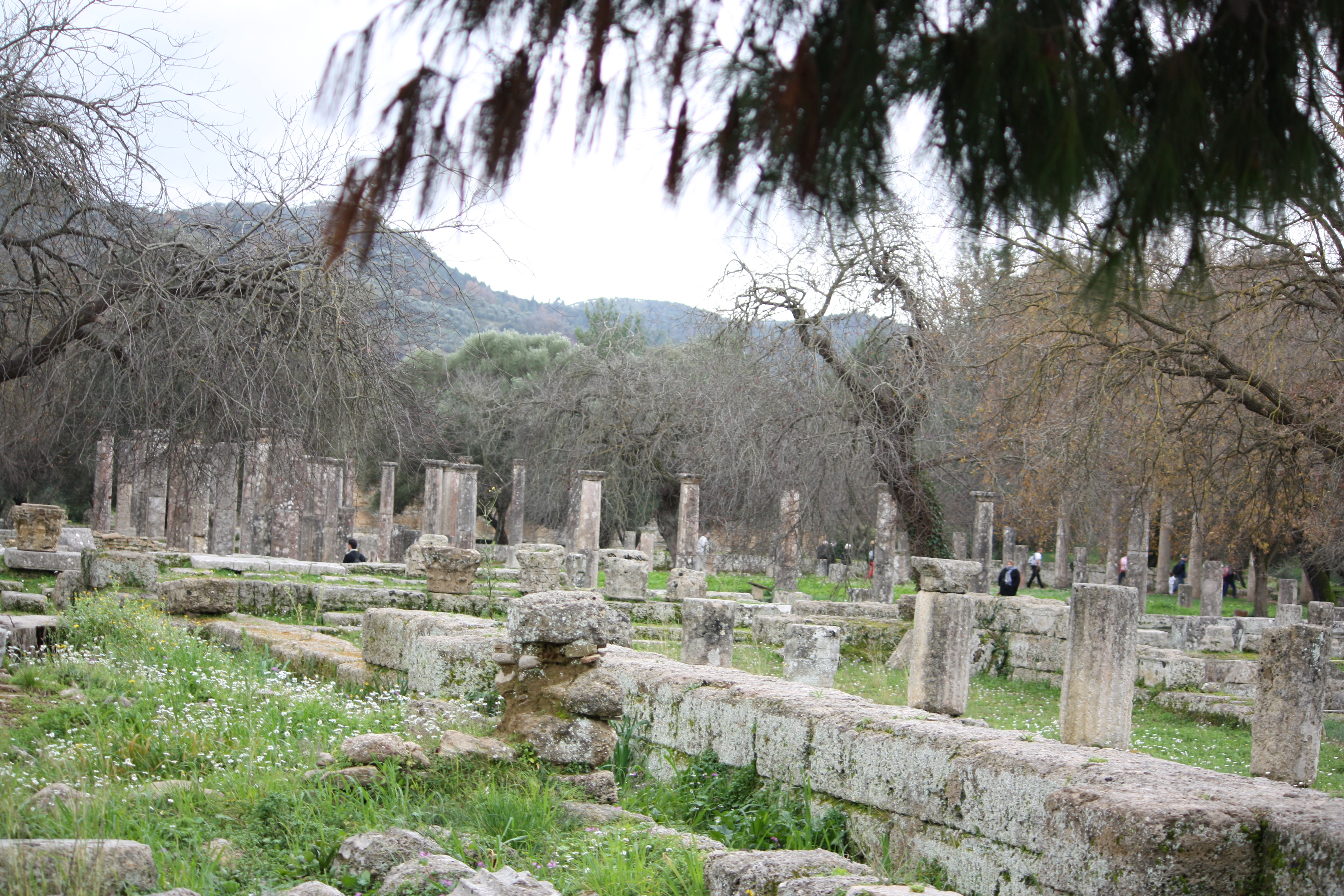 Gymnasion and Palaestra in archaeological site of Olympia, Greece.